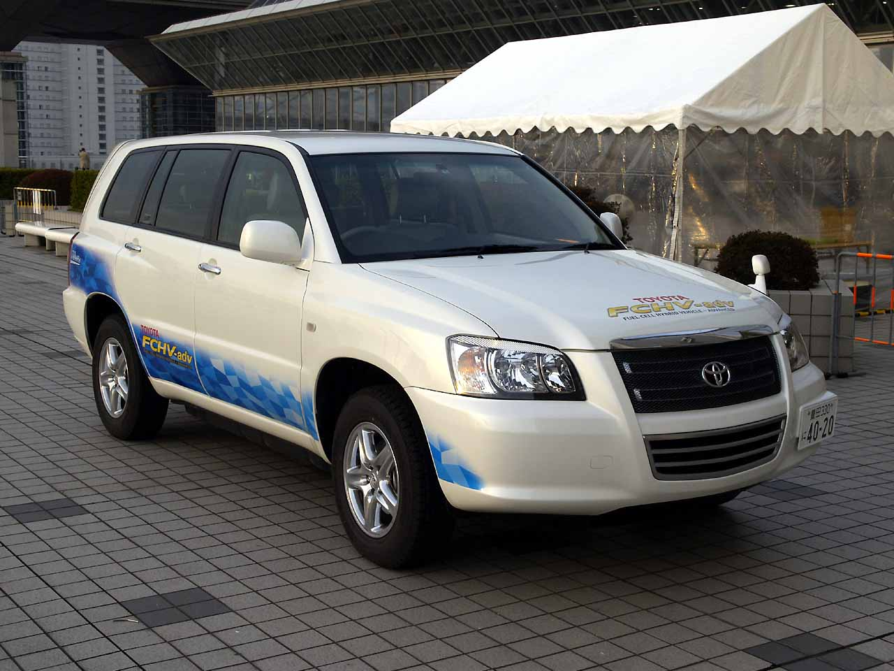 Toyota FCHV-adv (advanced), shown at FC EXPO 2009.